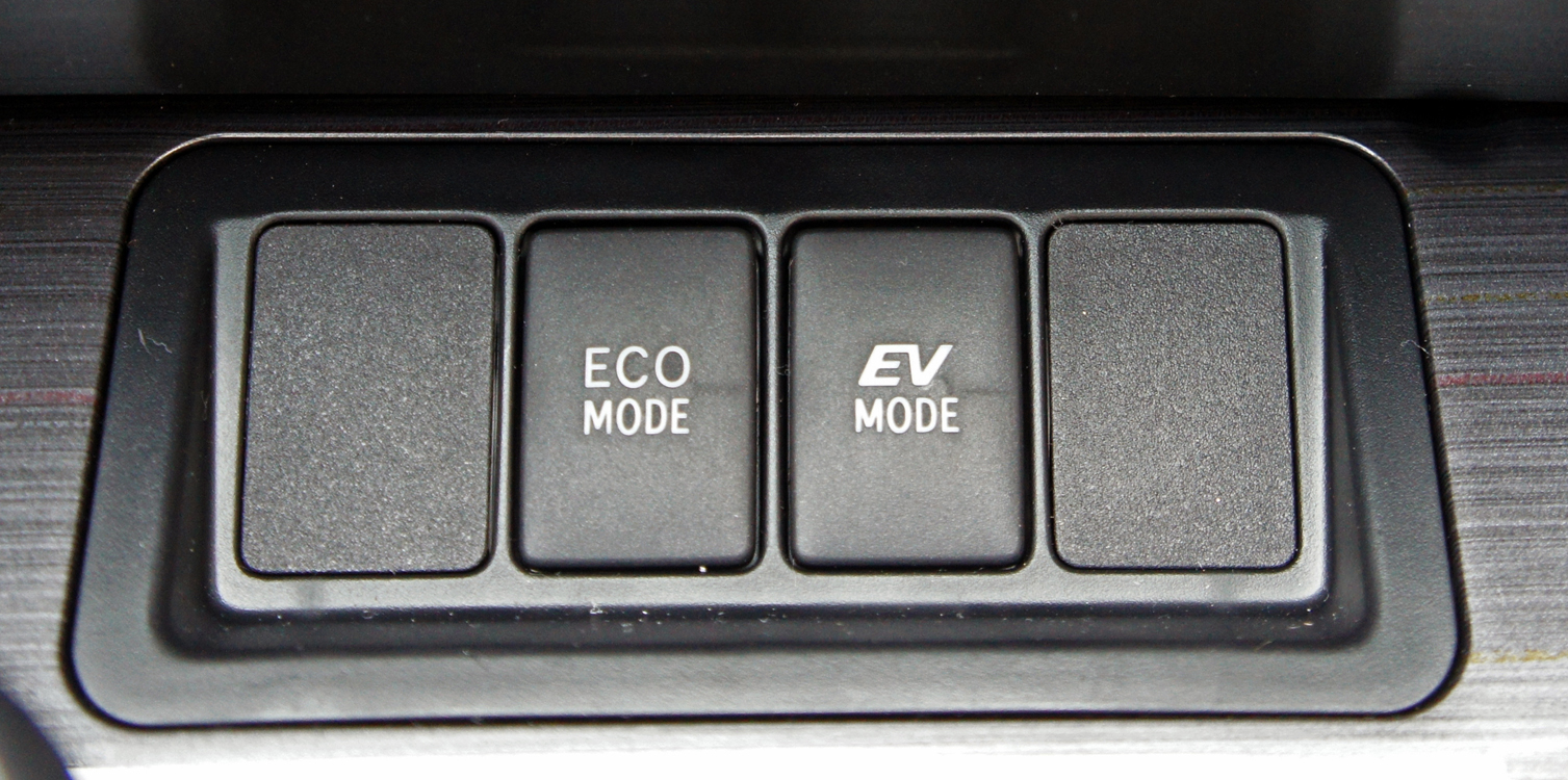 ECO Mode and EV (all-electric) Mode switches in the 2012 Toyota Camry Hybrid (US version)